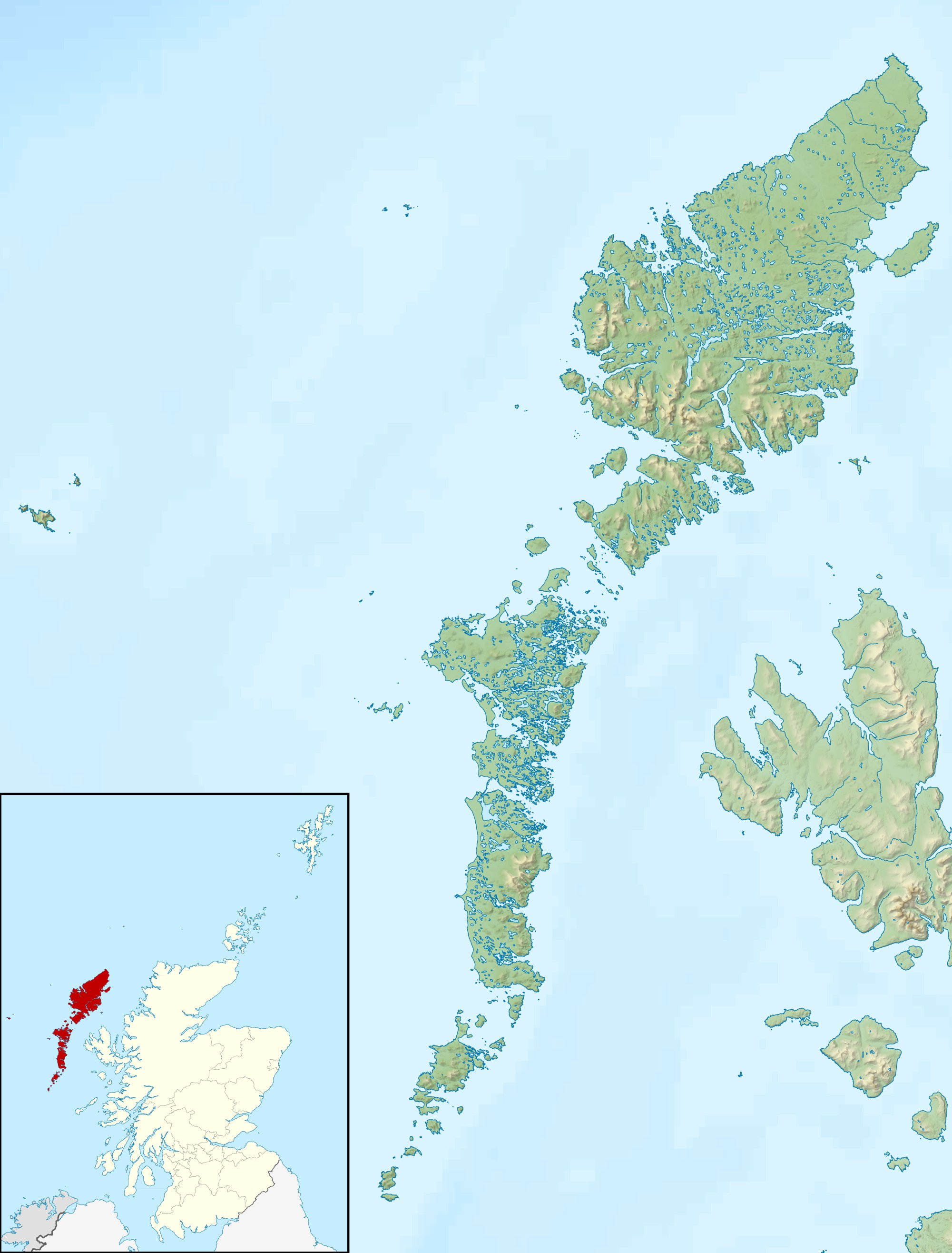 Relief map of the Outer Hebrides (excluding Sula Sgeir), UK. Equirectangular map projection on WGS 84 datum, with N/S stretched 180% Geographic limits: West: 8.70W East: 6.10W North: 58.60N South: 56.70N